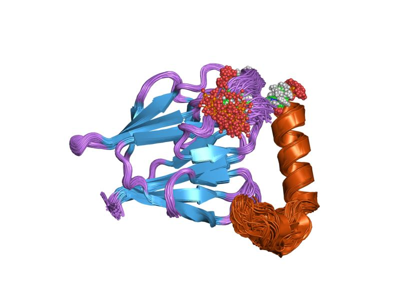 Cartoon representation of the molecular structure of protein registered with 2aff code.